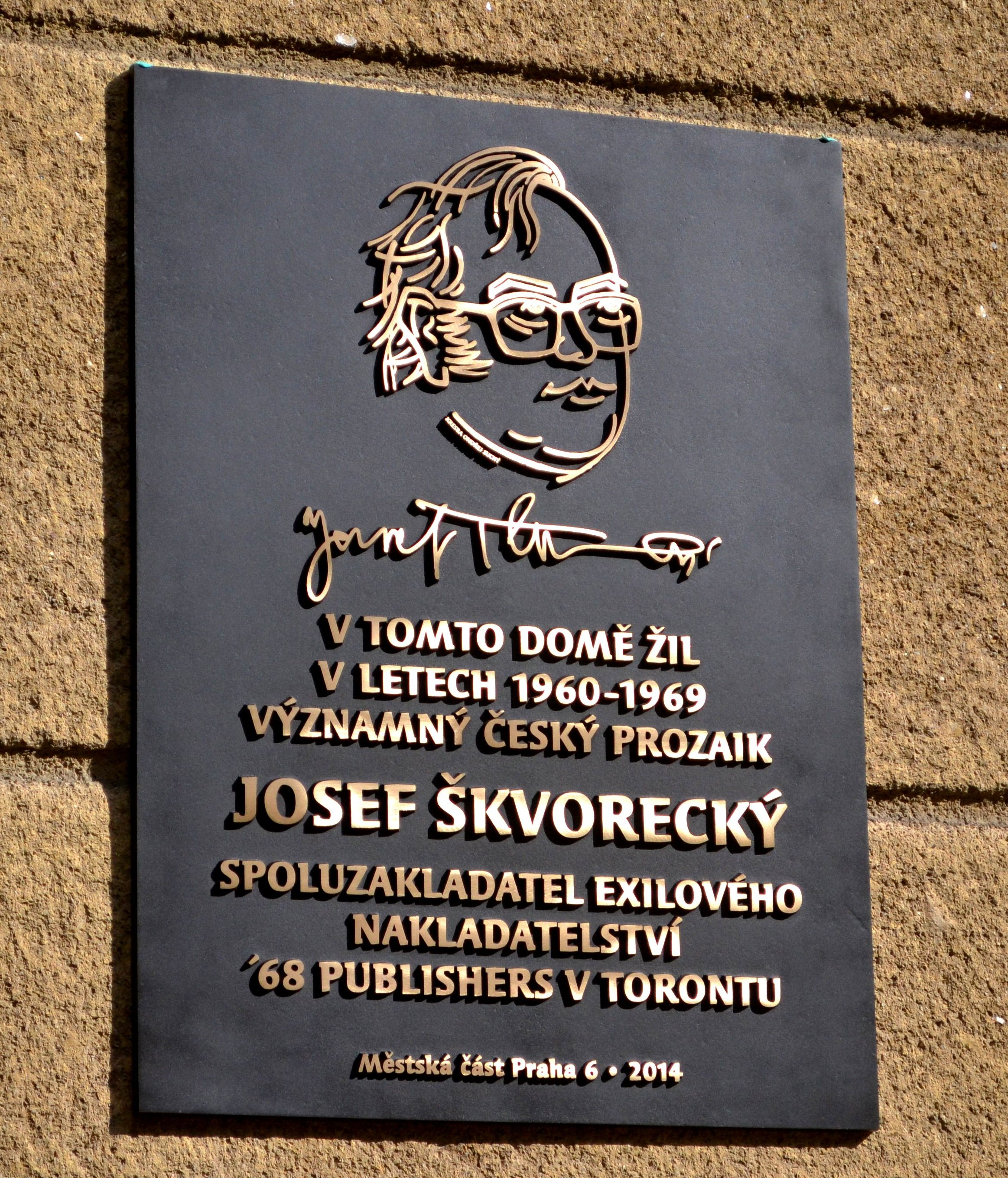 Commemorative plaque of Josef Škvorecký, Czech writer (Prague)